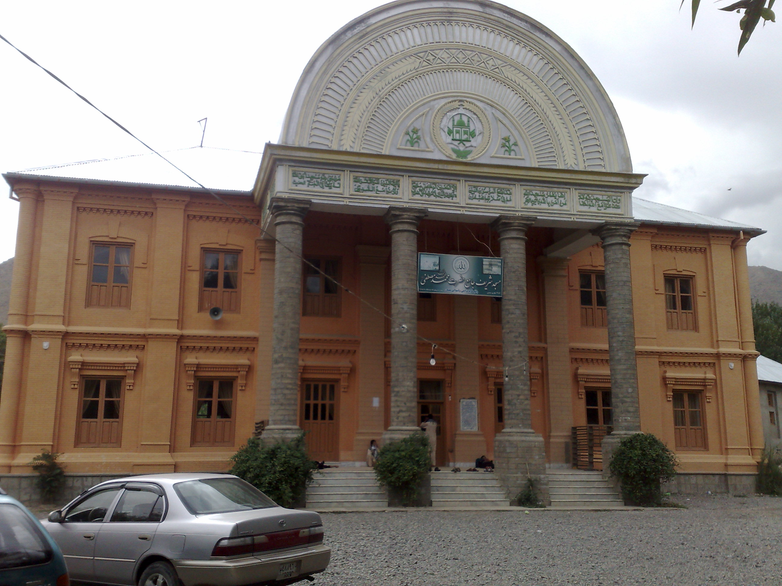 Paghman monument